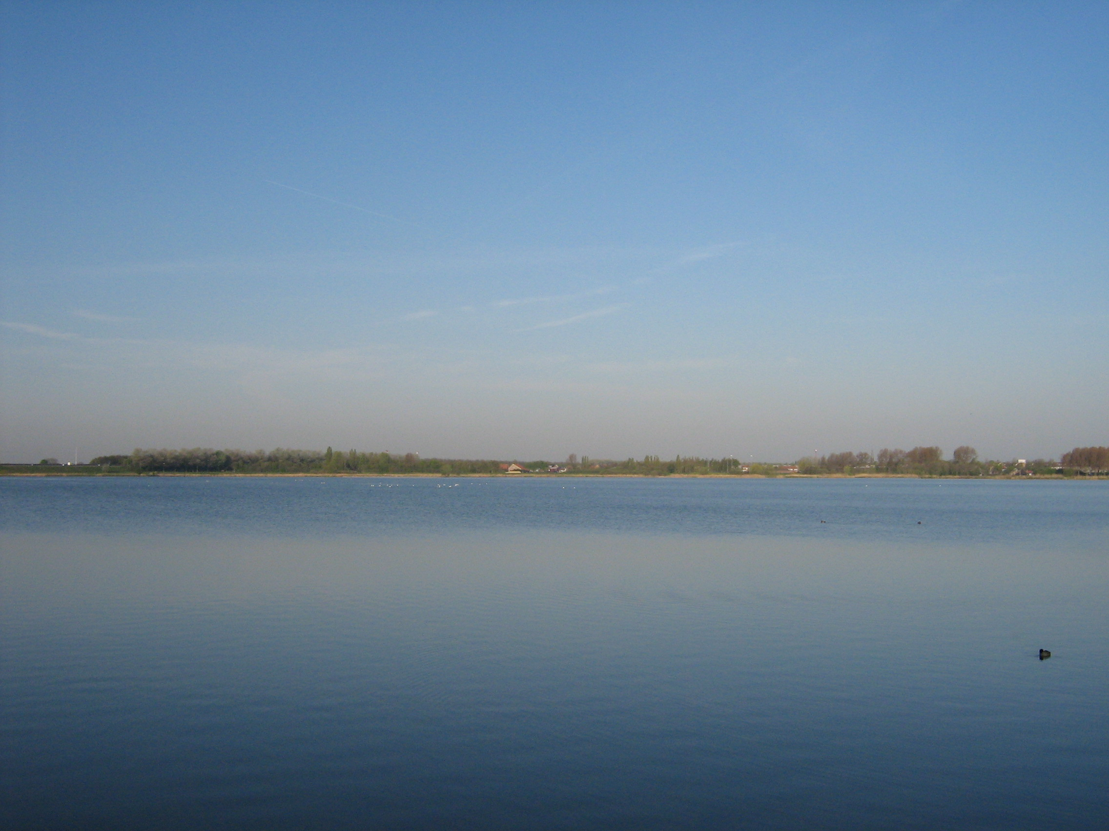 Photograph of the "Ouderkerkerplas" ("Ouderkerk Lake"), located just south-east of the built-up area of the town of Ouderkerk aan de Amstel in the municipality of Ouder-Amstel, the Netherlands. Photograph made on the morning of April 15 2007 by the uploader, who has donated it to the public domain.